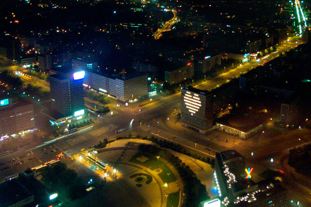 Projekt Blinkenlights, Berlin, 2001 - view from Berliner Fernsehturm